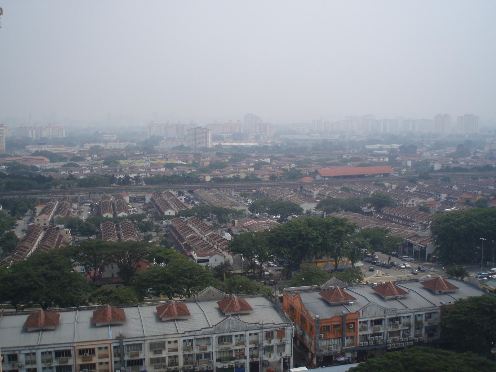 Wangsa Maju, Kuala Lumpur, Malaysia